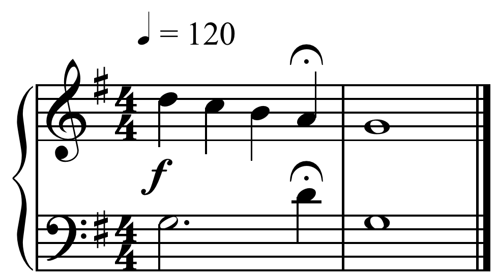 Urlinie in G with fermata. Created by Hyacinth (talk) 21:13, 5 February 2012 (UTC) using Sibelius 5. See: File:Urlinie_in_G_with_fermata.mid, File:Urlinie_in_G_without_fermata.mid, File:Urlinie in G with double value.mid